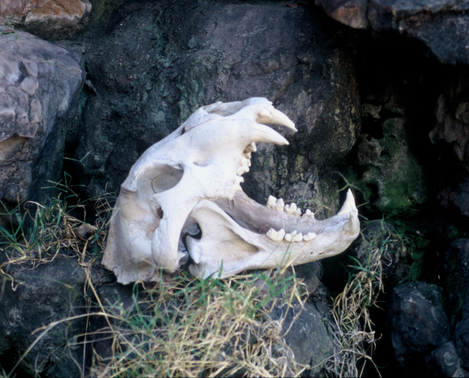 Lion skull (Panthera leo) at Kruger National Park